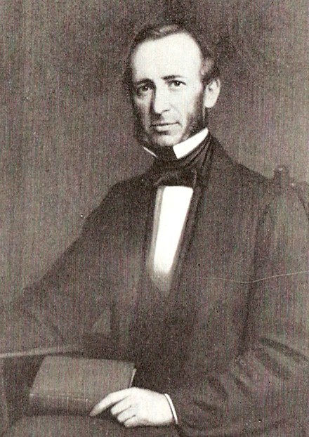 Bernhard Donner (1808-1865), merchant and banker in Hamburg, owner of „Conrad Hinrich Donner Bank“ in Hamburg